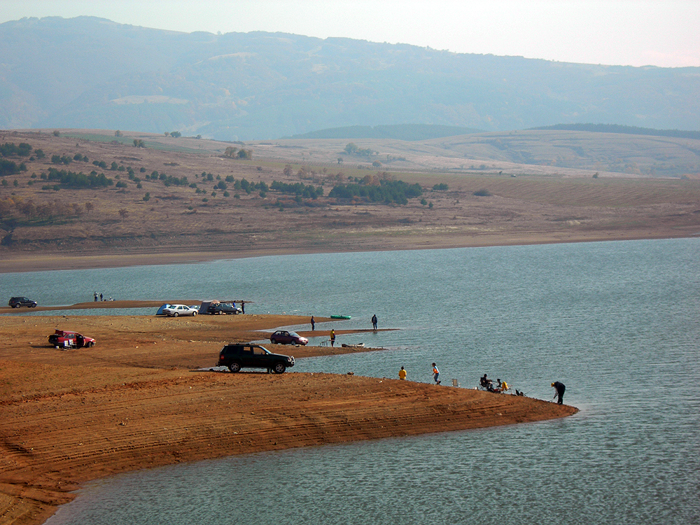 Gorna Dikanya Dam